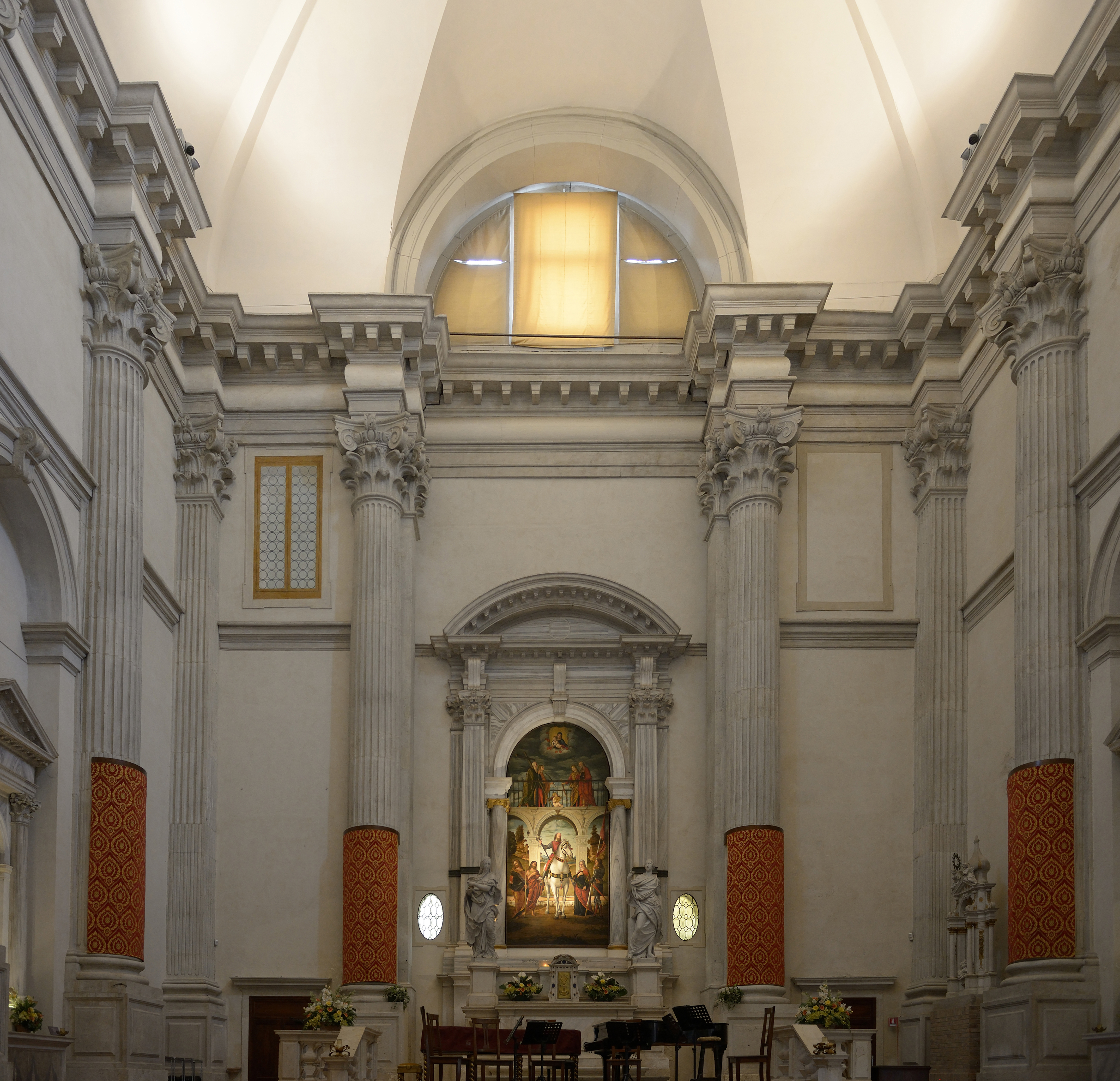 San Vidal church in Venice